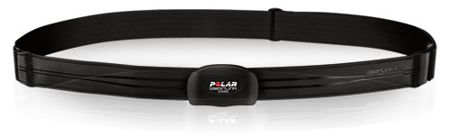 Chest belt Polar Wearlink